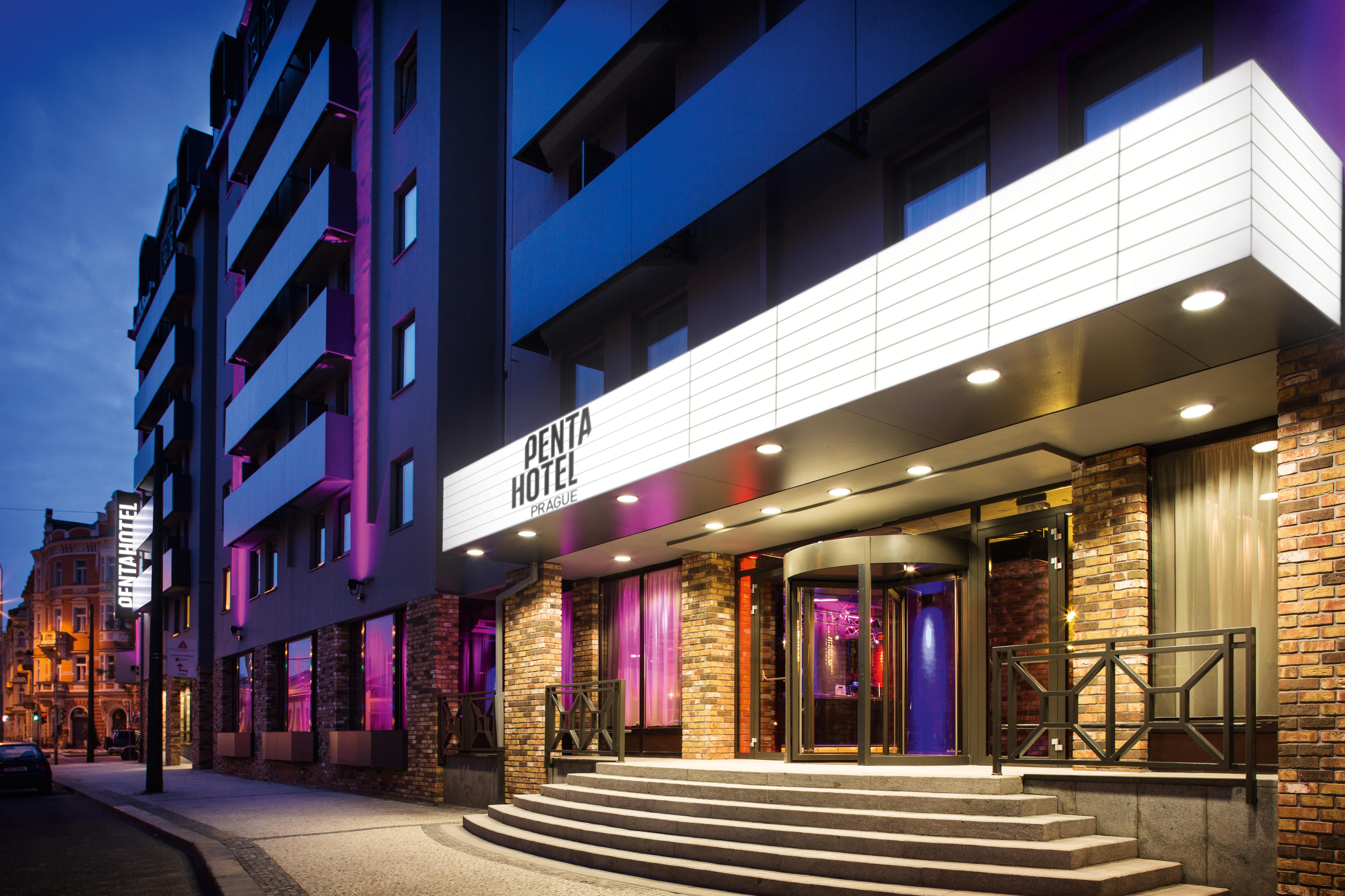 Pentahotel Prague